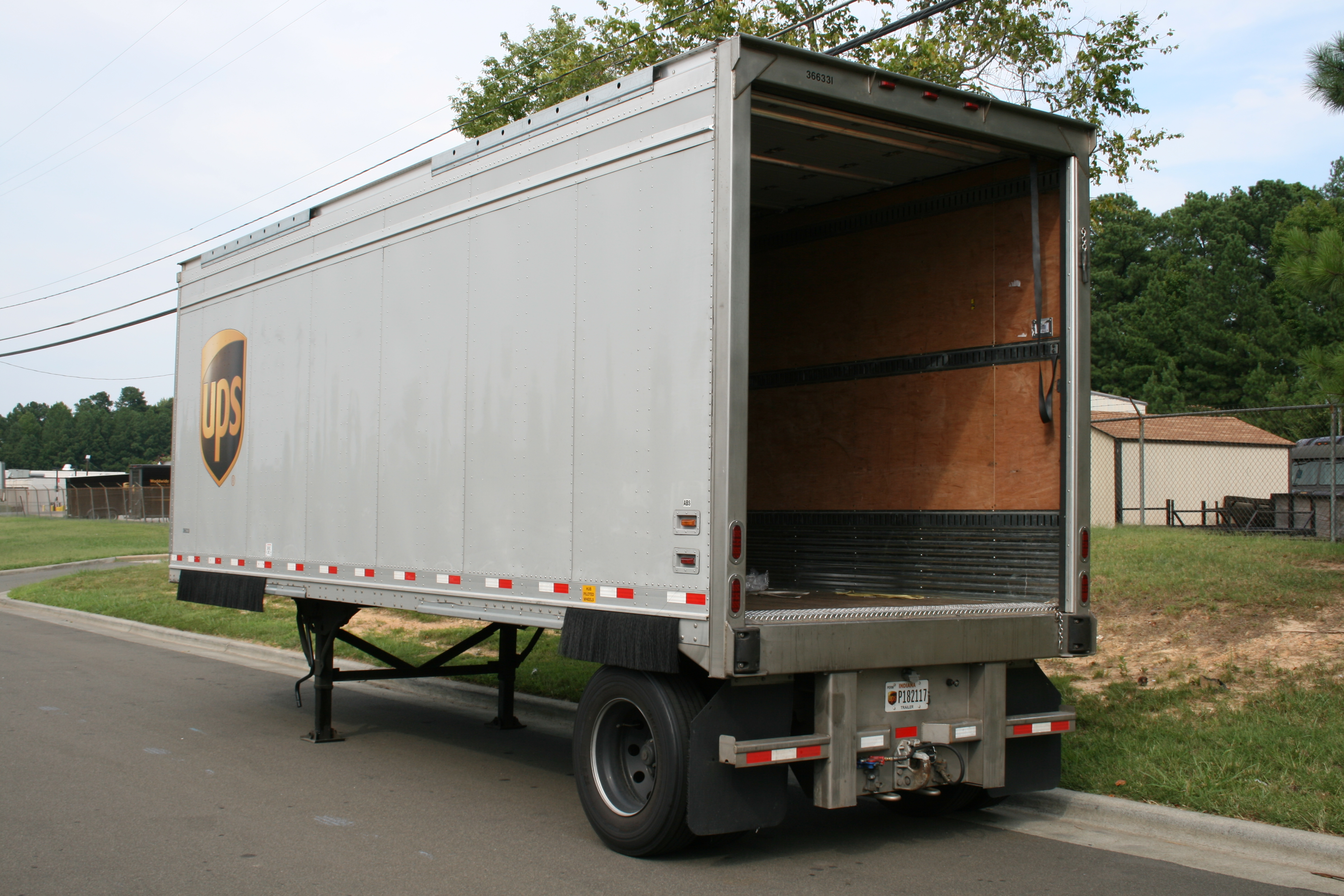 Trailer parked on Fay St adjacent to the UPS facility in Durham, North Carolina.